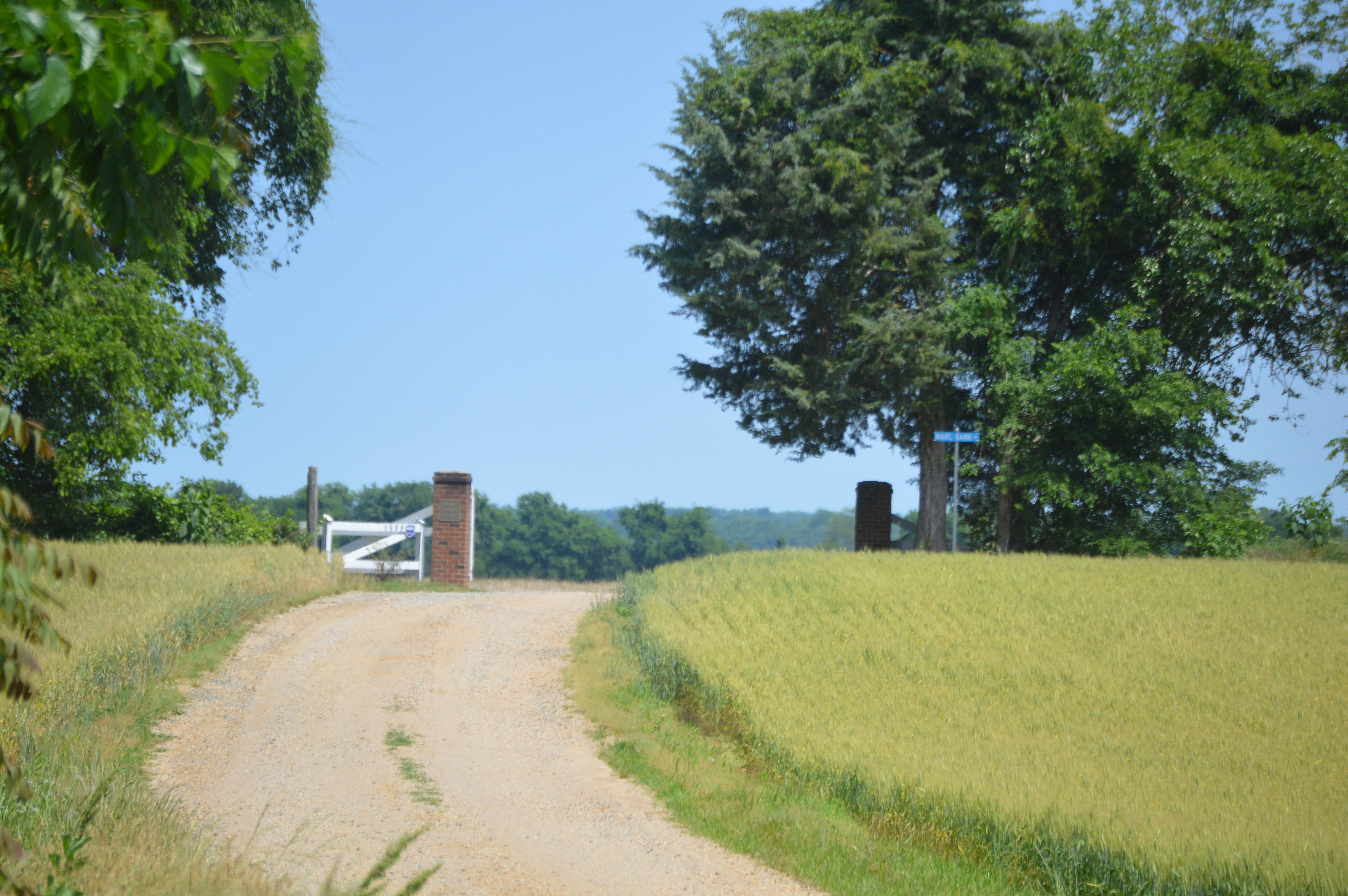 Entrance to the Port Micou estate, located off Marl Bank Road north of Loretto in Essex County, Virginia, United States. The estate is listed on the National Register of Historic Places.